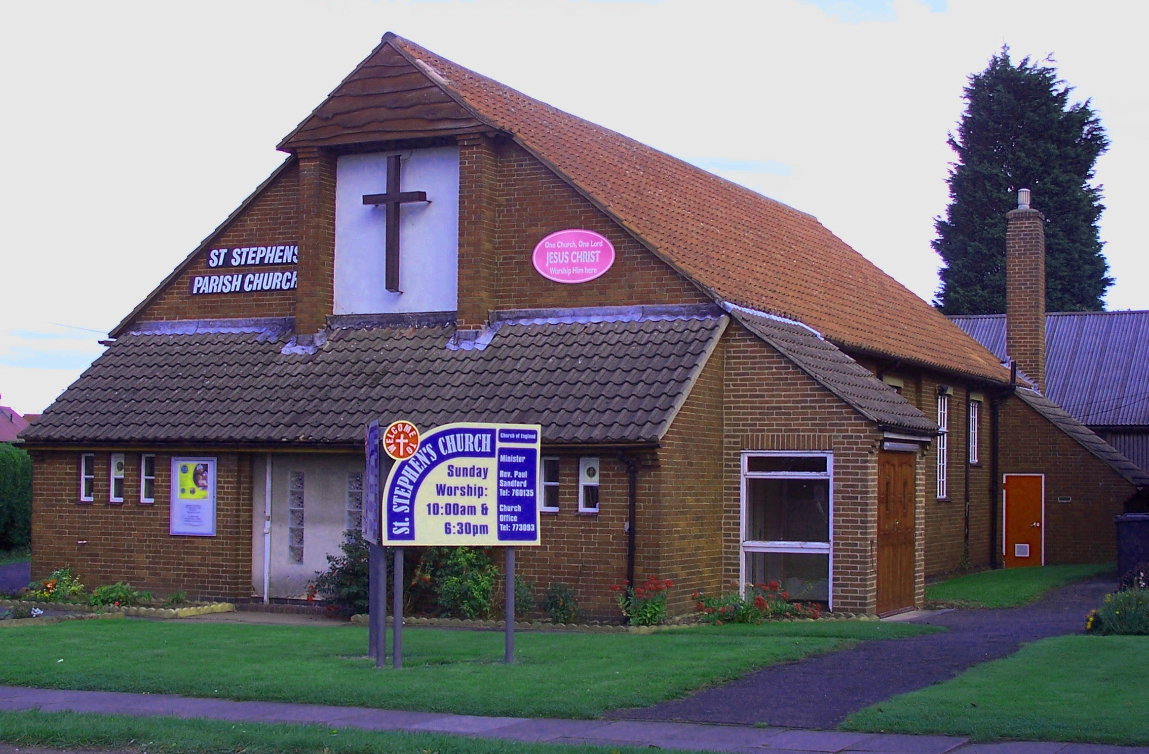 St Stephen's parish church, Sinfin Lane, Sinfin, Derby UK